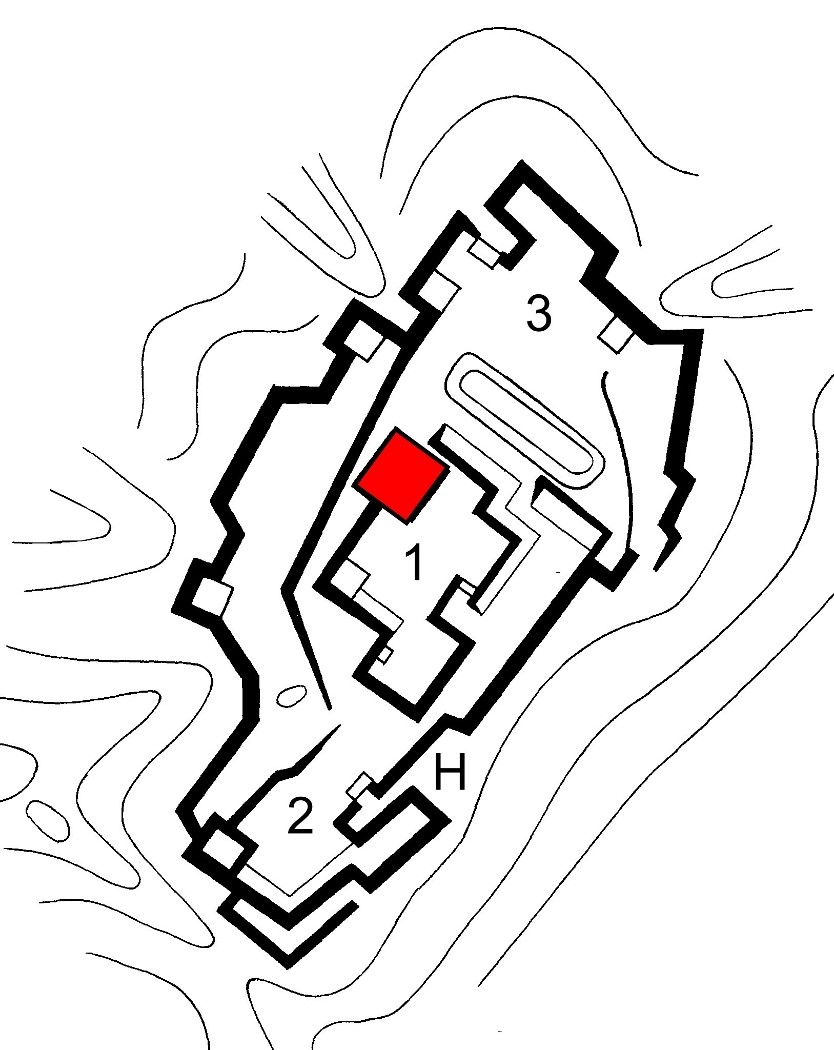 Layout of original Iwakuni castle